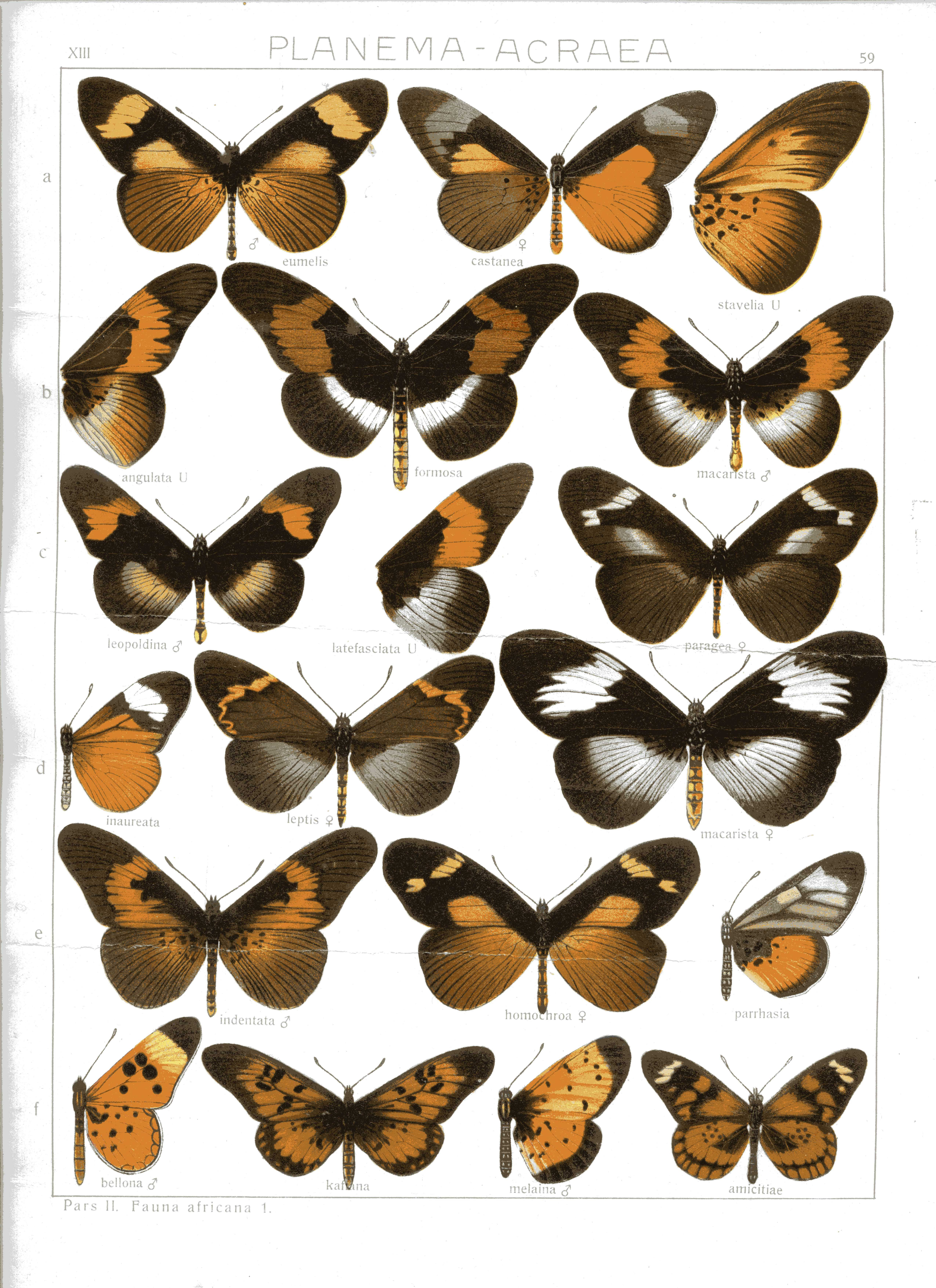 Adalbert Seitz Die Gross-Schmetterlinge der Erde 13: Die Afrikanischen Tagfalter. Plate XIII 59 a Bematistes tellus eumelis (Jordan, 1910) castanea synonym for Acraea jodutta (Fabricius, 1793) Bematistes vestalis stavelia (Suffert, 1904) b Planema formosa angulata Suffert,1904 synonym for Bematistes pseuderyta Godman & Salvin, 1890 Bematistes formosa (Butler, 1874) Bematistes macarista (Sharpe, 1906) c Bematistes leopoldina (Aurivillius, 1895 Planema formosa latefasciata Suffert, 1904 synonym for Bematistes macarista (Sharpe, 1906) Bematistes epaea paragea (Grose-Smith, 1900) d Acraea jodutta f. inaureata Eltringham, 1912 synonym for Acraea esebria Hewitson, 1861 Bematistes quadricolor leptis (Jordan, 1910) Bematistes macarista (Sharpe, 1906) e Bematistes indentata (Butler, 1895) Bematistes epaea homochroa (Rothschild & Jordan, 1905) Acraea parrhasia (Fabricius, 1793) Acraea perenna kaffana Rothschild, 1902 Acraea periphanes f. melaina Eltringham, 1911 Acraea amicitiae Heron, 1909